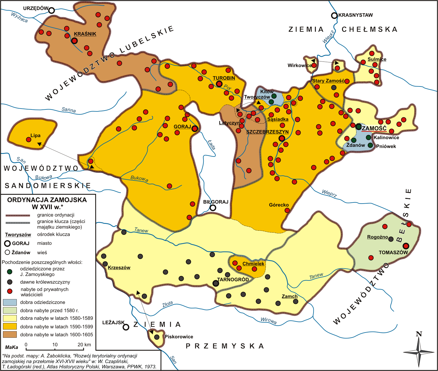 Map of Ordynacja Zamojska (fee tail) in Poland